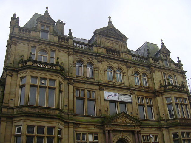 Conservative Club, Cannon street, Accrington Having closed it became "Churchill's" a night club, it is now abandoned